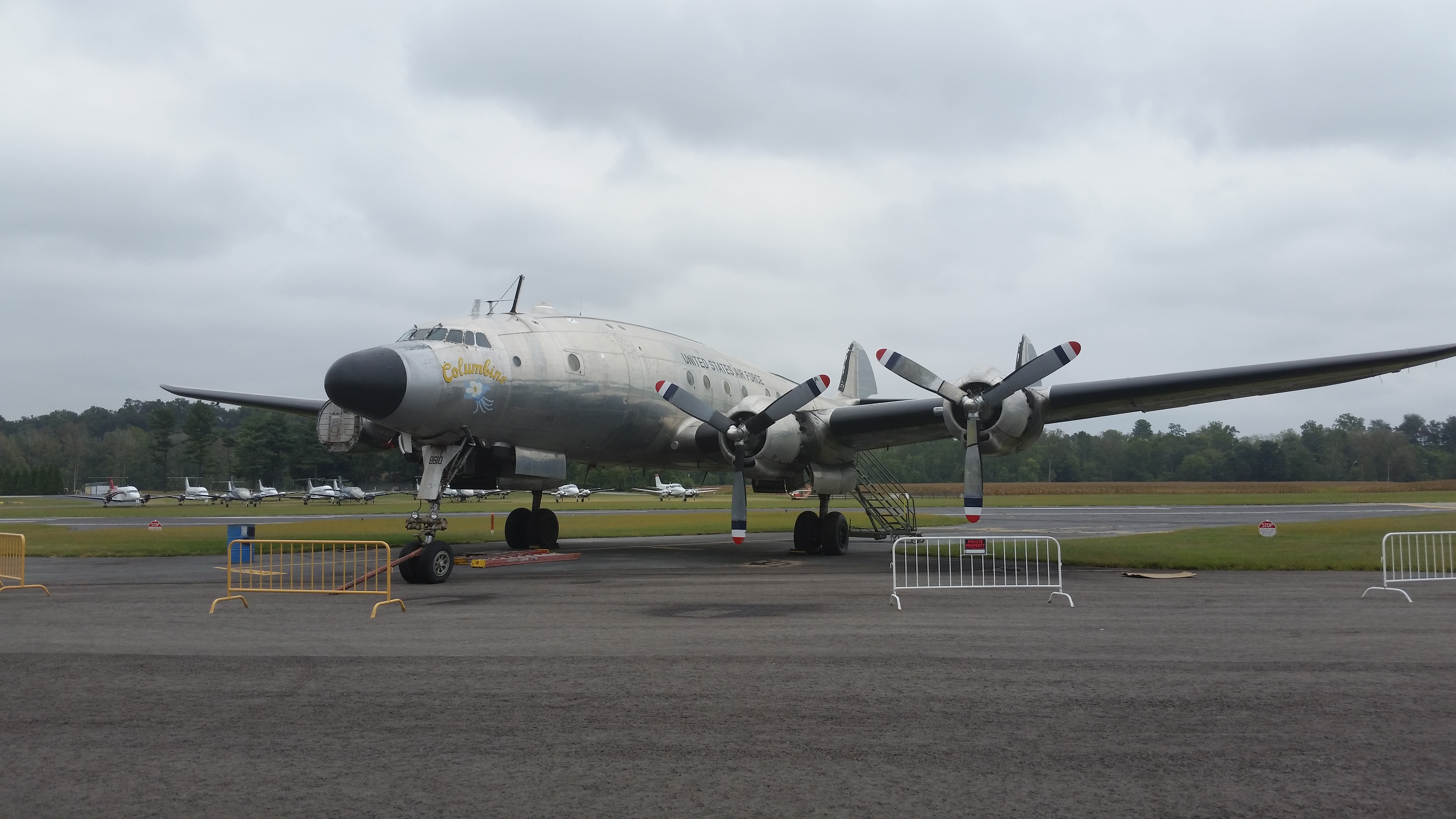 Columbine II on the apron at Bridgewater Air Park (KVBW) Bridgewater, VA. The two starboard engines are removed and undergoing restoration by Dynamic Aviation Group at the time of this photo.